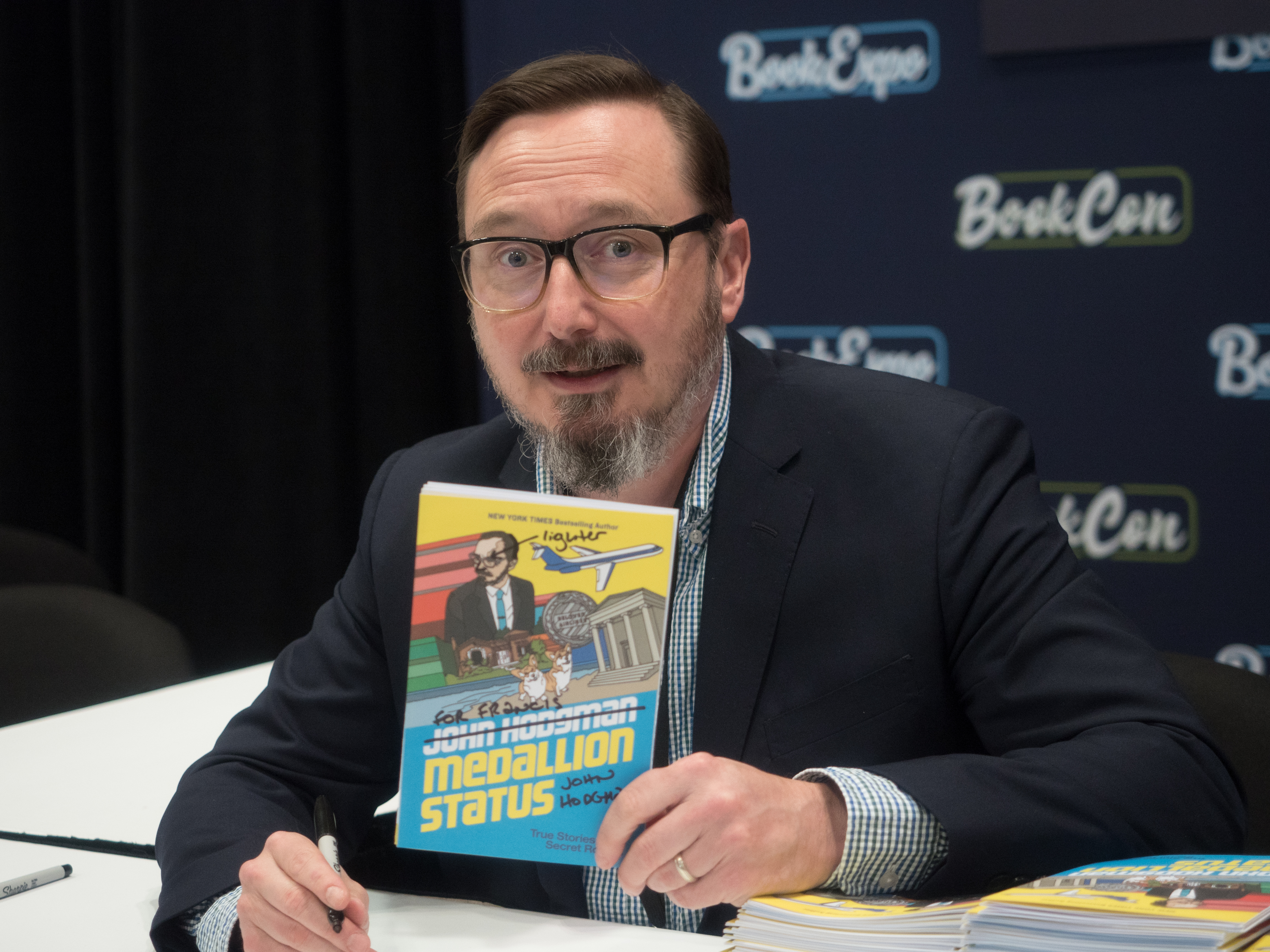 John Hodgman at BookExpo at the Javits Center in New York City, May 2019.